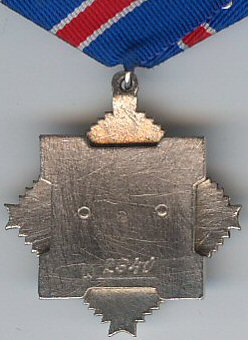 Reverse of the Russian Order of MIlitary Merit